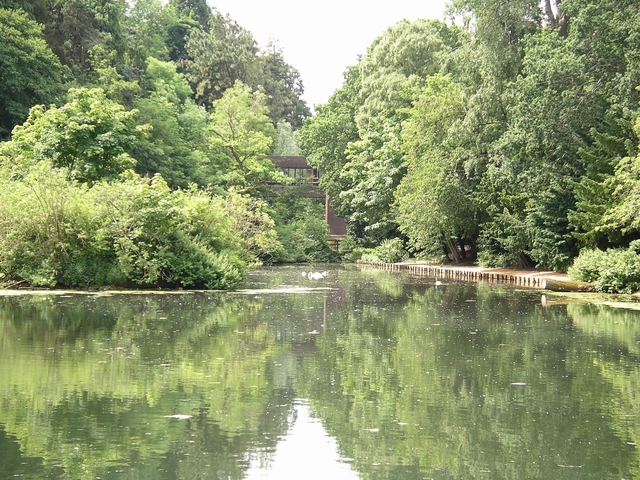 The Loch, Heriot-Watt University. The Loch in the centre of the University's Riccarton Campus. Just visible is the bridge connecting the main entrance with the Hugh Nisbet building.